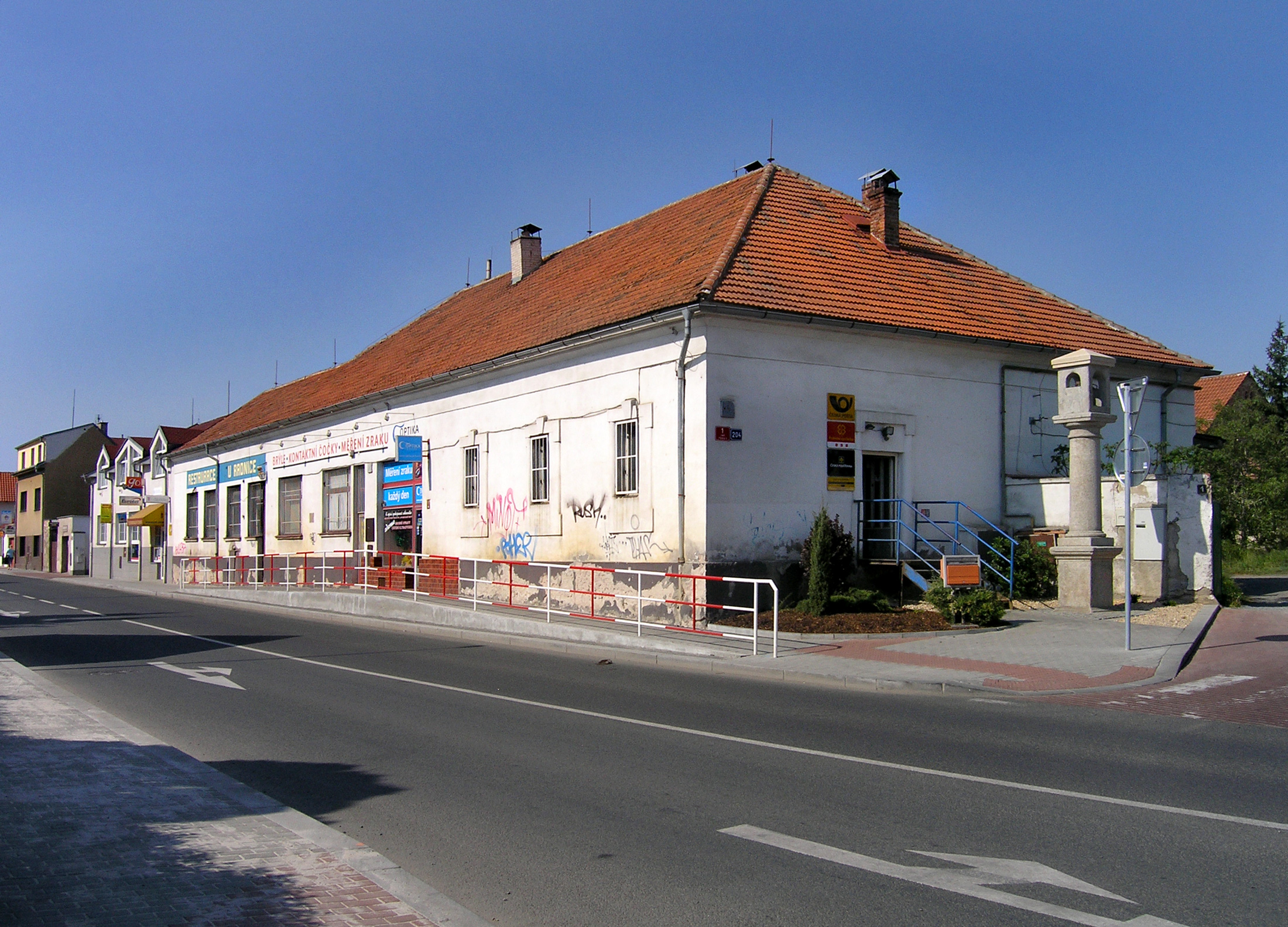 Prague-Libuš, Libušská 1/204, 1/206, 1/208, a post office.